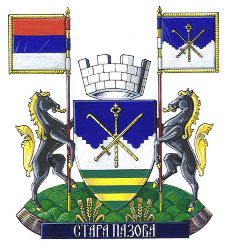 Grb Stare Pazove Coat of arms of Stara Pazova